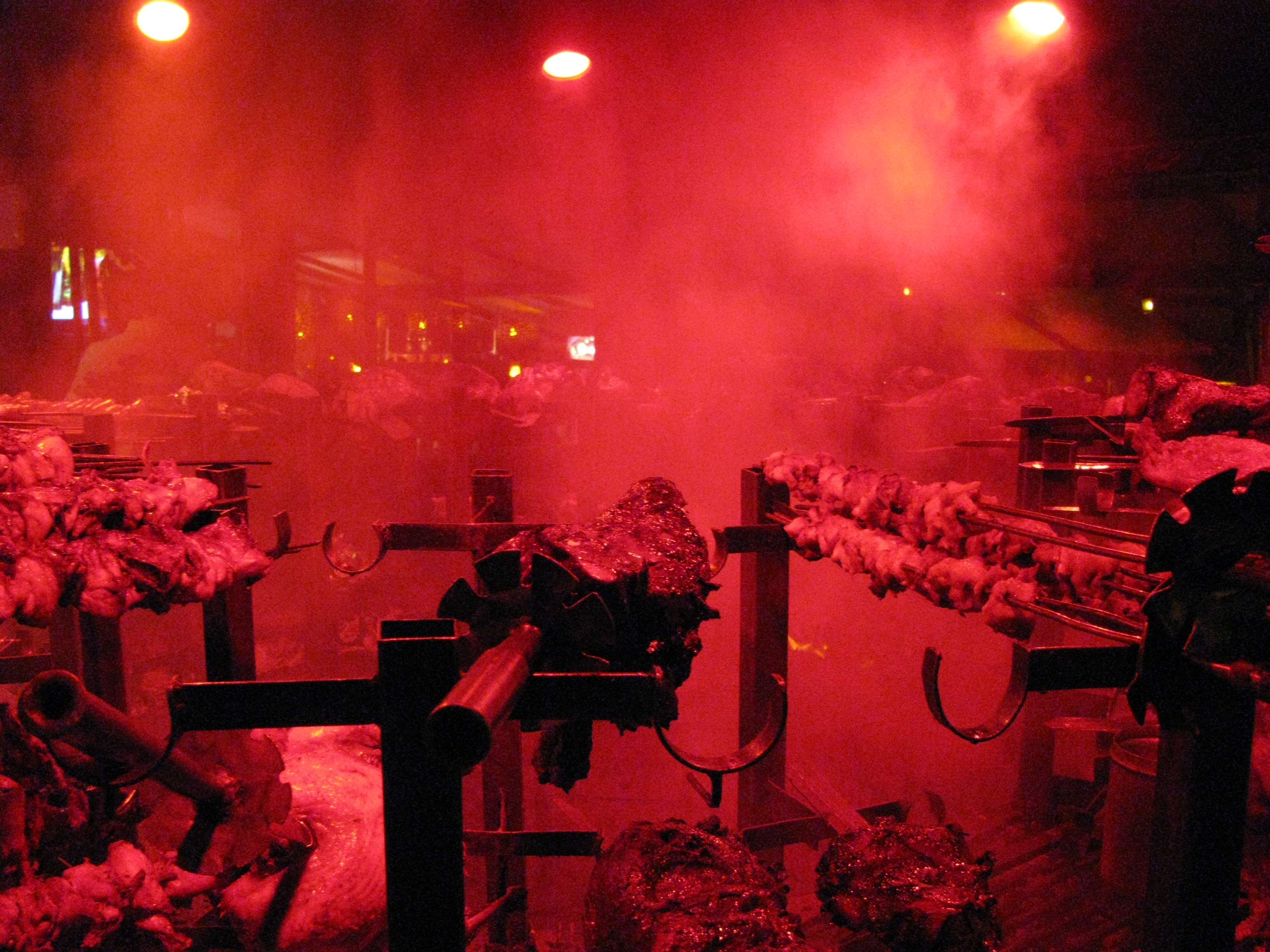 A close view of the charcoal pit, taken without flash, showing the various meats being grilled over the oven at the Carnivore Restaurant, Nairobi. The red lighting is from their side, for a bit of atmosphere. (Oct/ Nov 2010)